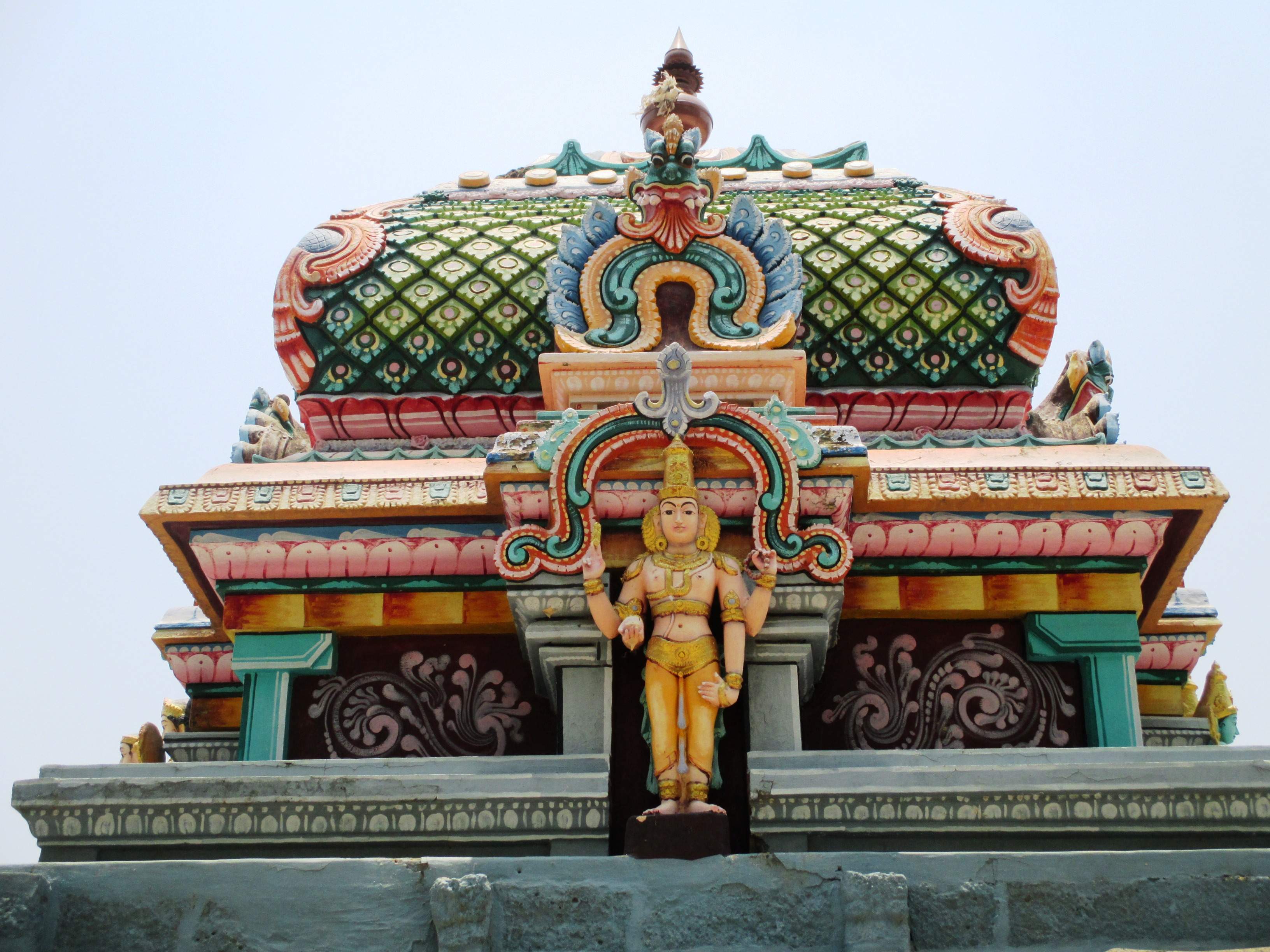 Thirumanikuzhi